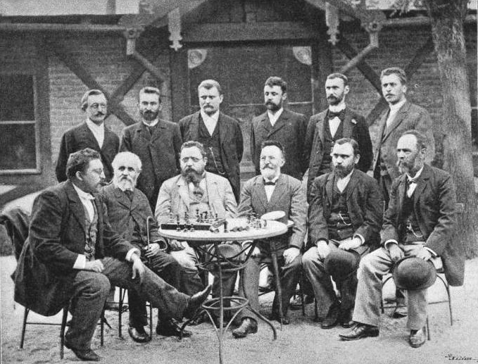 The 4th Congress of Czech chess players in Prague, 1895, Czech chess composers, standing Jan Kotrč, Josef Pospíšil, Václav Tuzar, Karel Fiala, Dr. Karel Musil, Karel Pospíšil, sitting Dr. Jan Dobruský, Antonín König, Dr. Antonín Kvíčala, Josef Paclt, Dr. Jan Pilnáček, Jan Karel